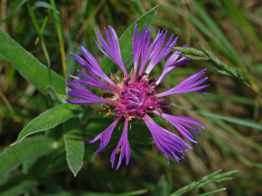 Centaurea triumfettii